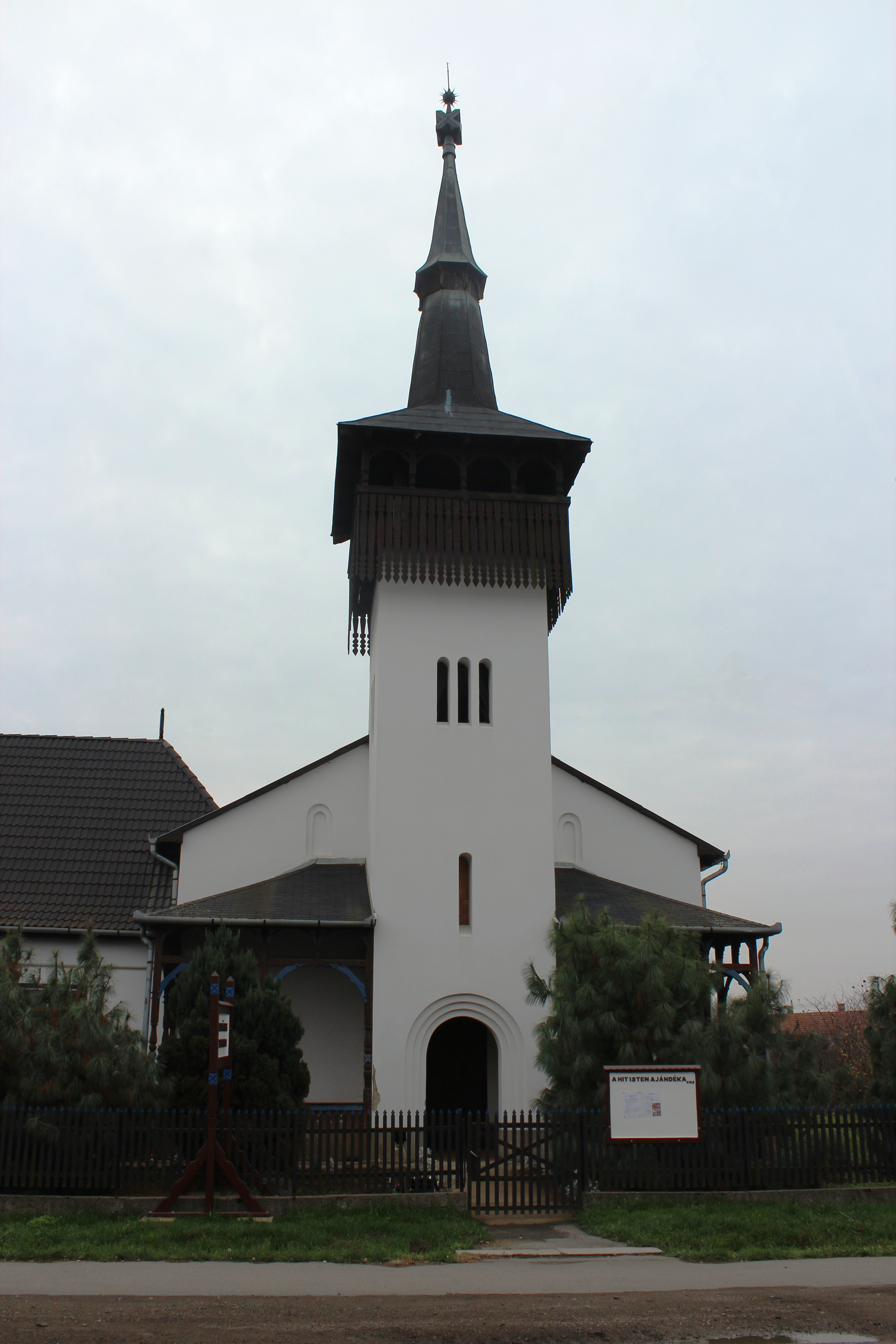 Unitarian church in Kocsord, Hungary This is a photo of a monument in Hungary, Identifier: 8281